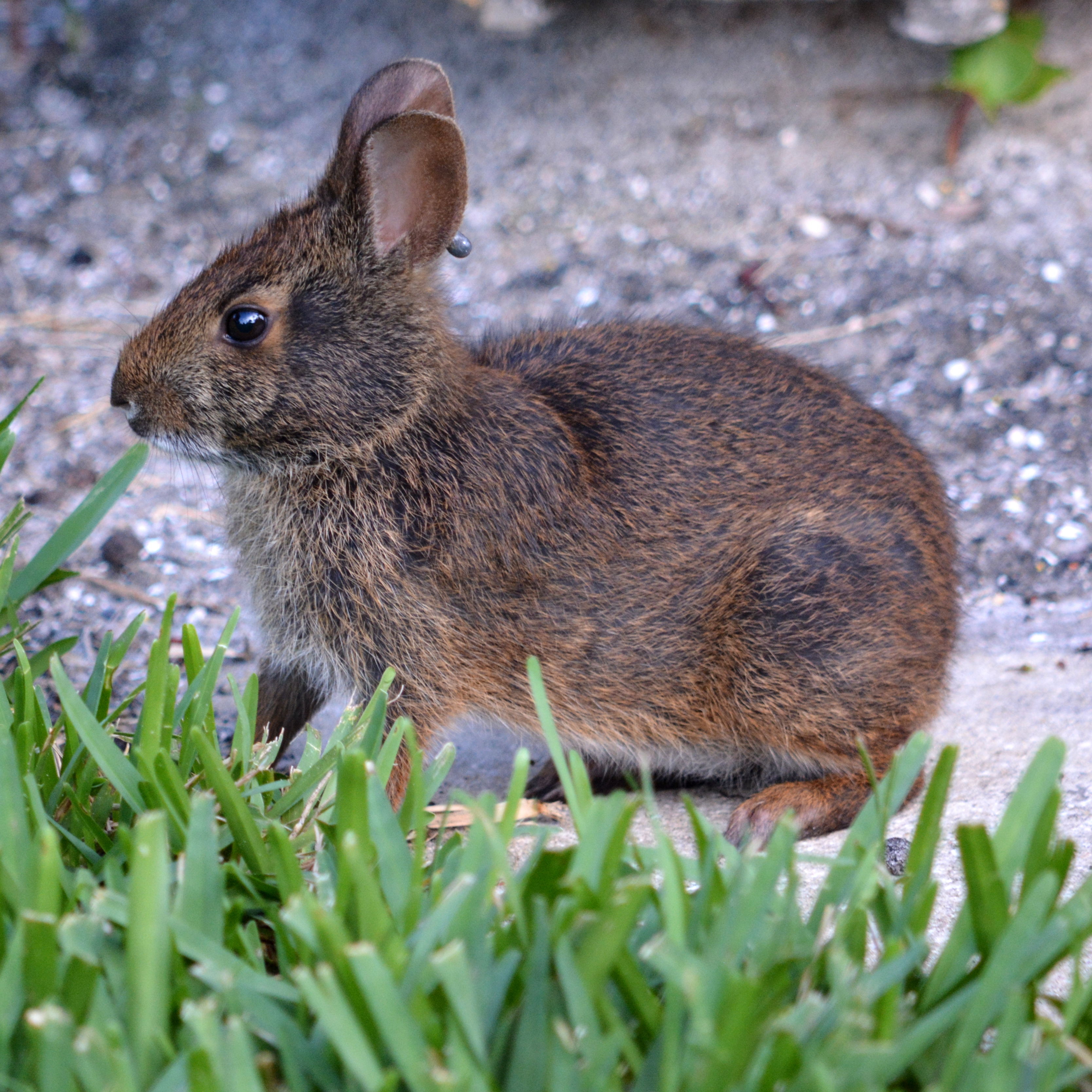 Sylvilagus palustris (Marsh rabbit) in Sanibel Island